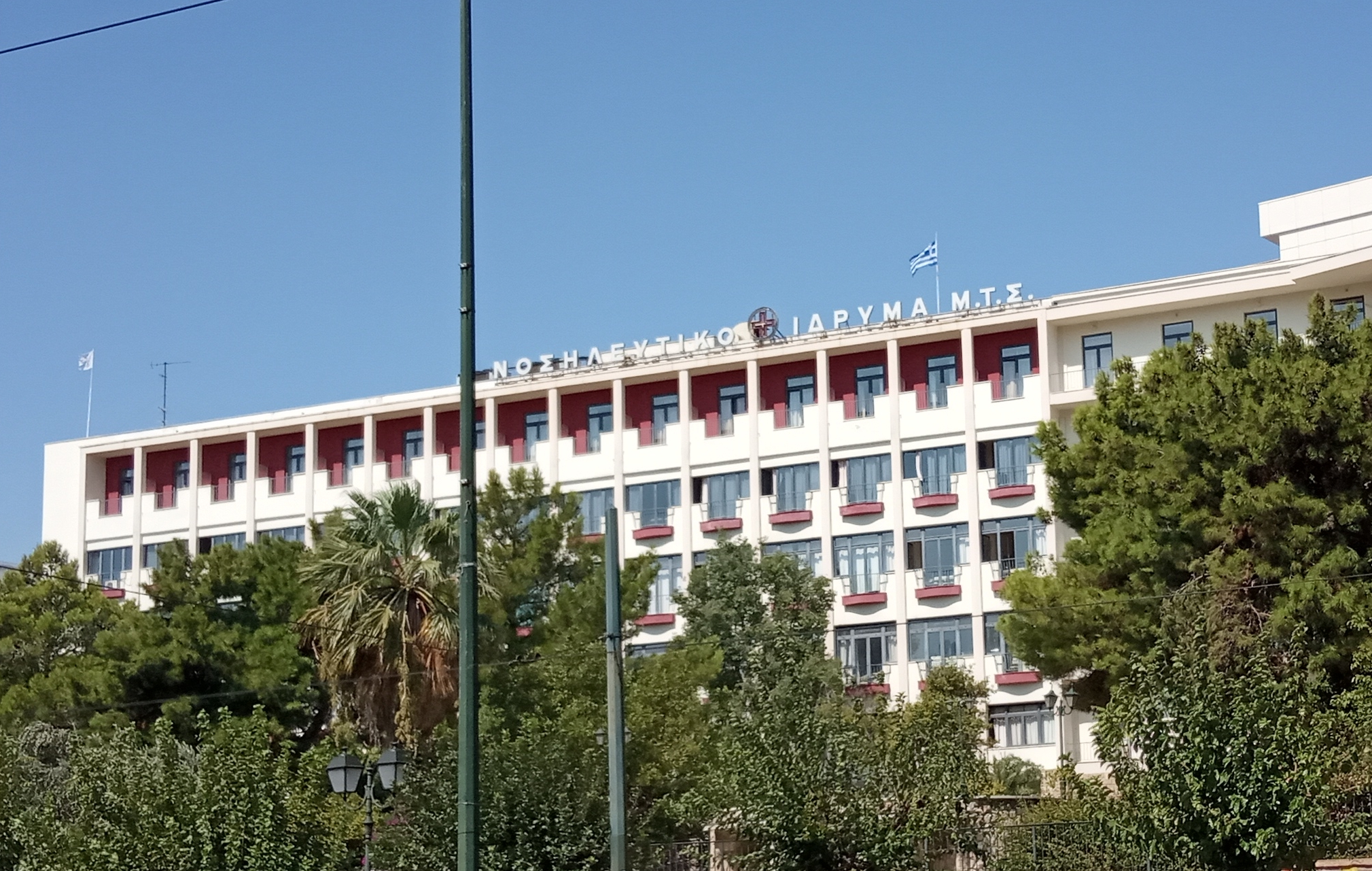 417 NIMTS Veterans' Fund Army Hospital, Athens. Partial view of the main building from Vasilissis Sofias Avenue.